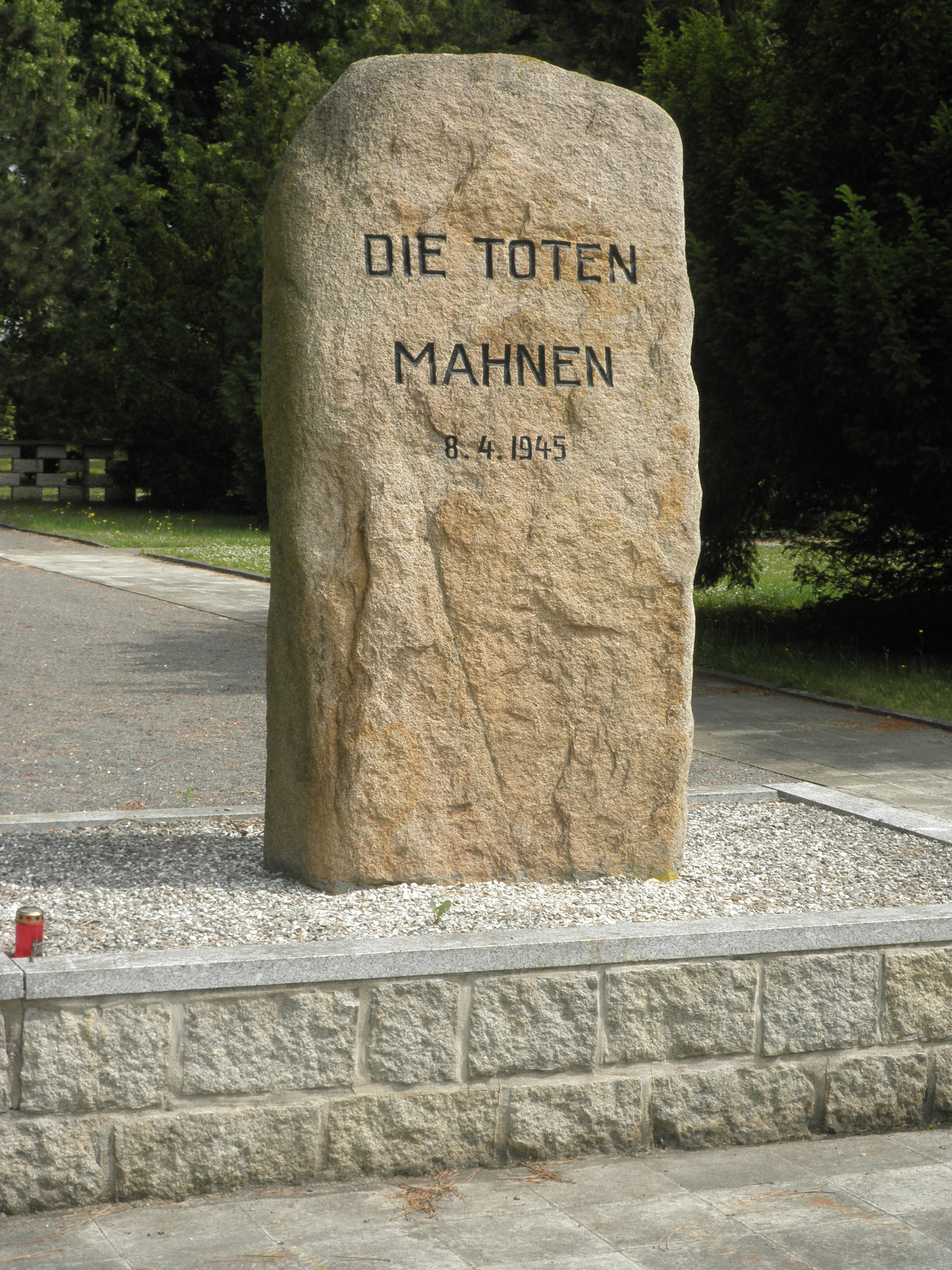 Monument for Bombing Victims in Halberstadt